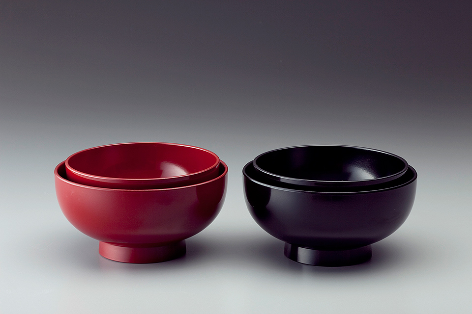 MUJI Japanese Tableware / Lacquer-ware bowl (2004), Masahiro Mori (ceramic designer) designed